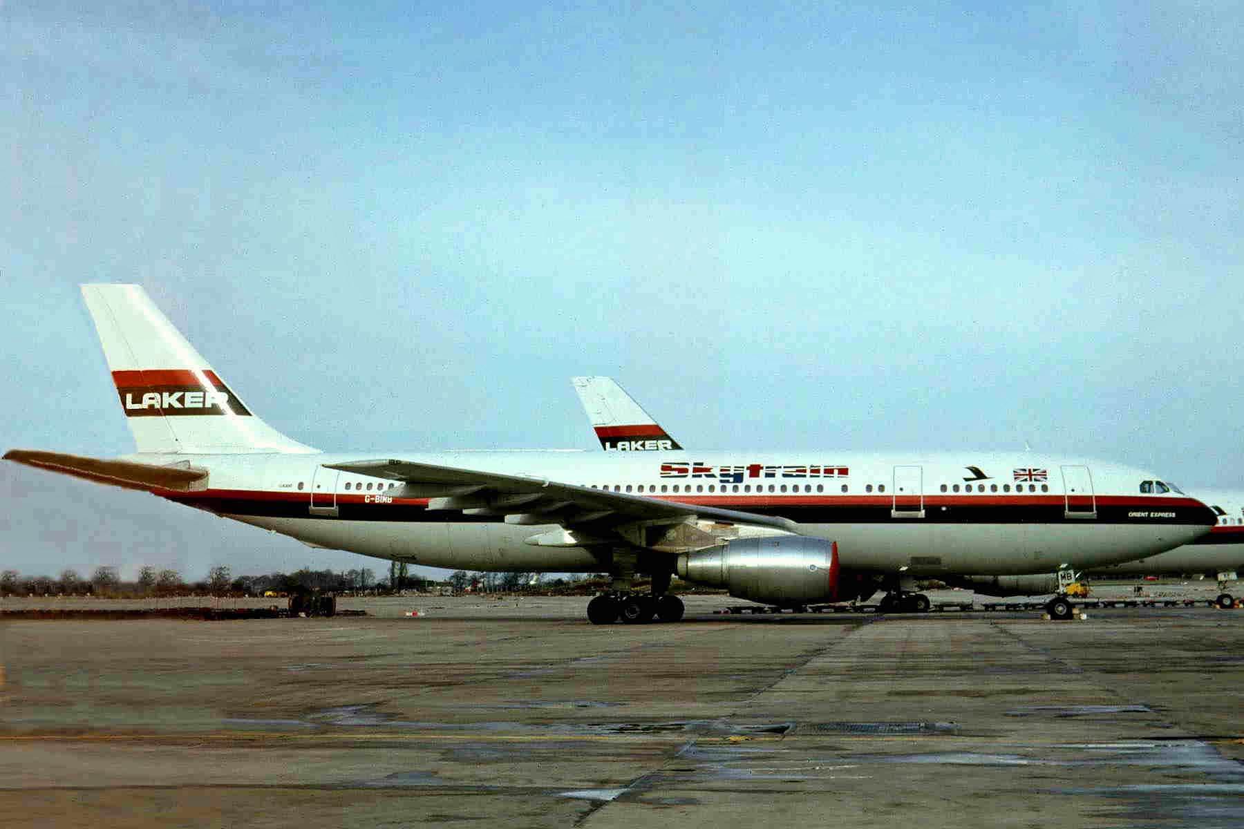 G-BIMB impounded at Manchester (MAN) after Laker ceased operations in Feb-82. A colleague I later worked with at Cal Air/Novair was Purser on the last flight. They were half way to Tenerife (TFS) when the Capt told them they were returning to Manchester.